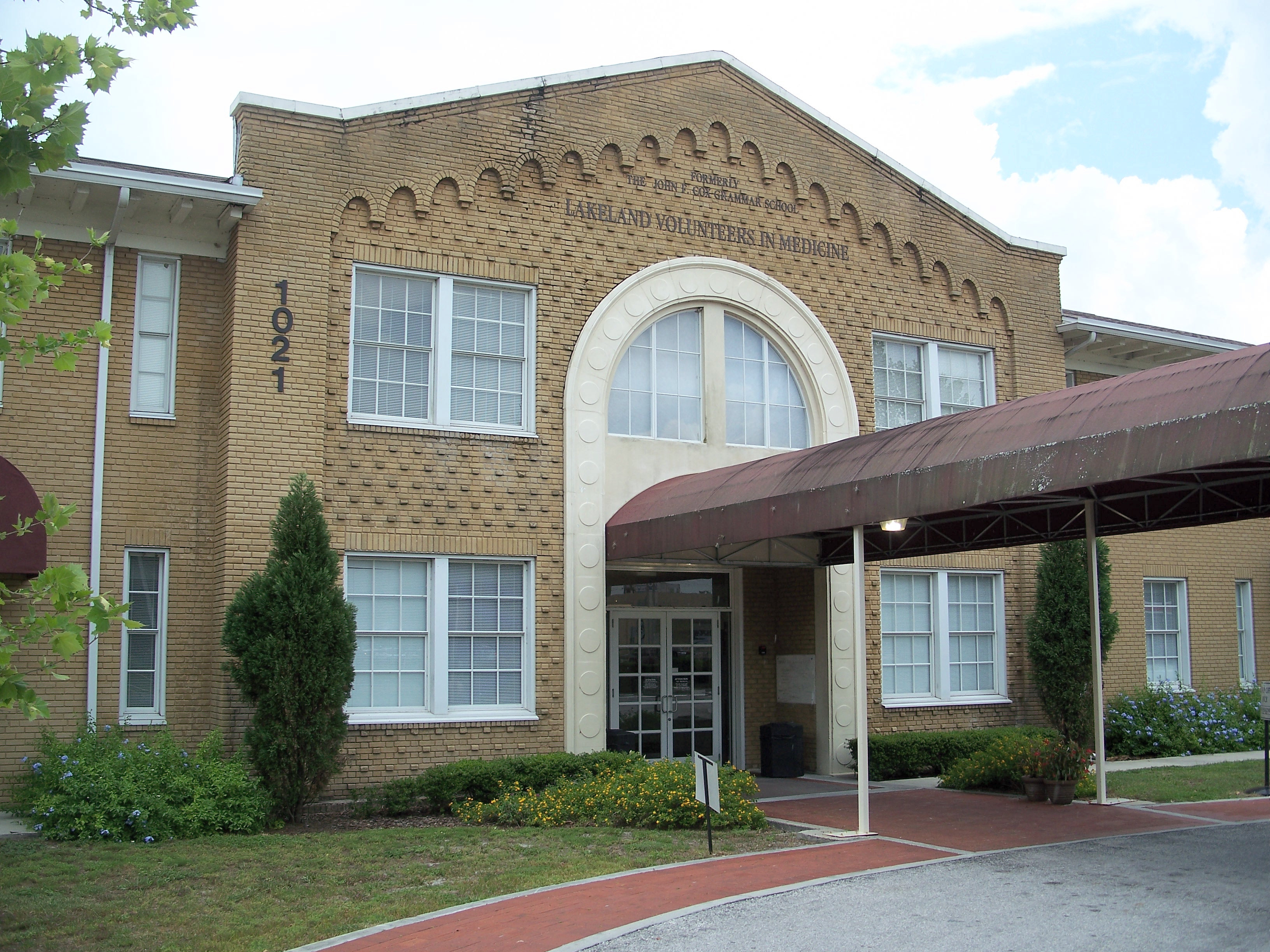 Lakeland: John F. Cox Grammar School: Now a hospital/clinic